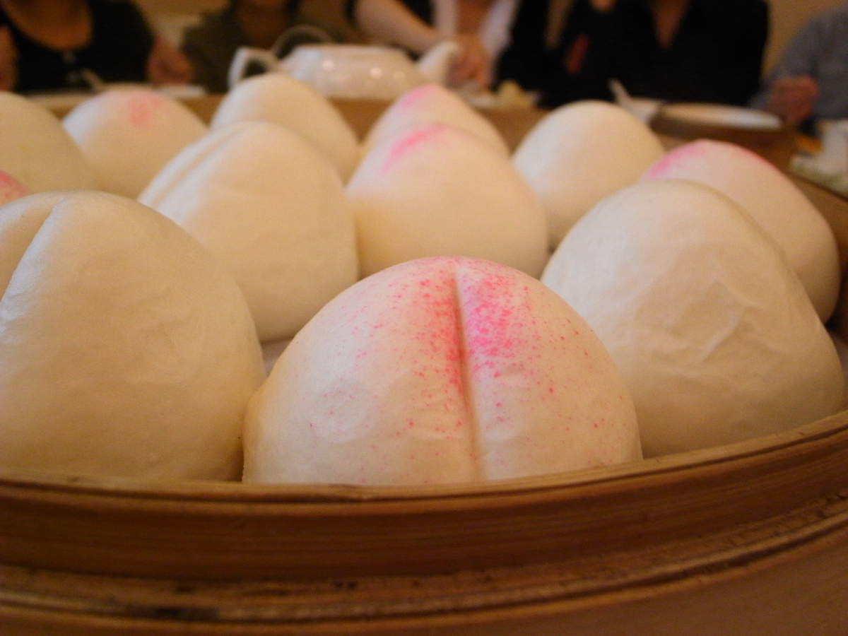 Peach bun, Longevity bun (壽包)